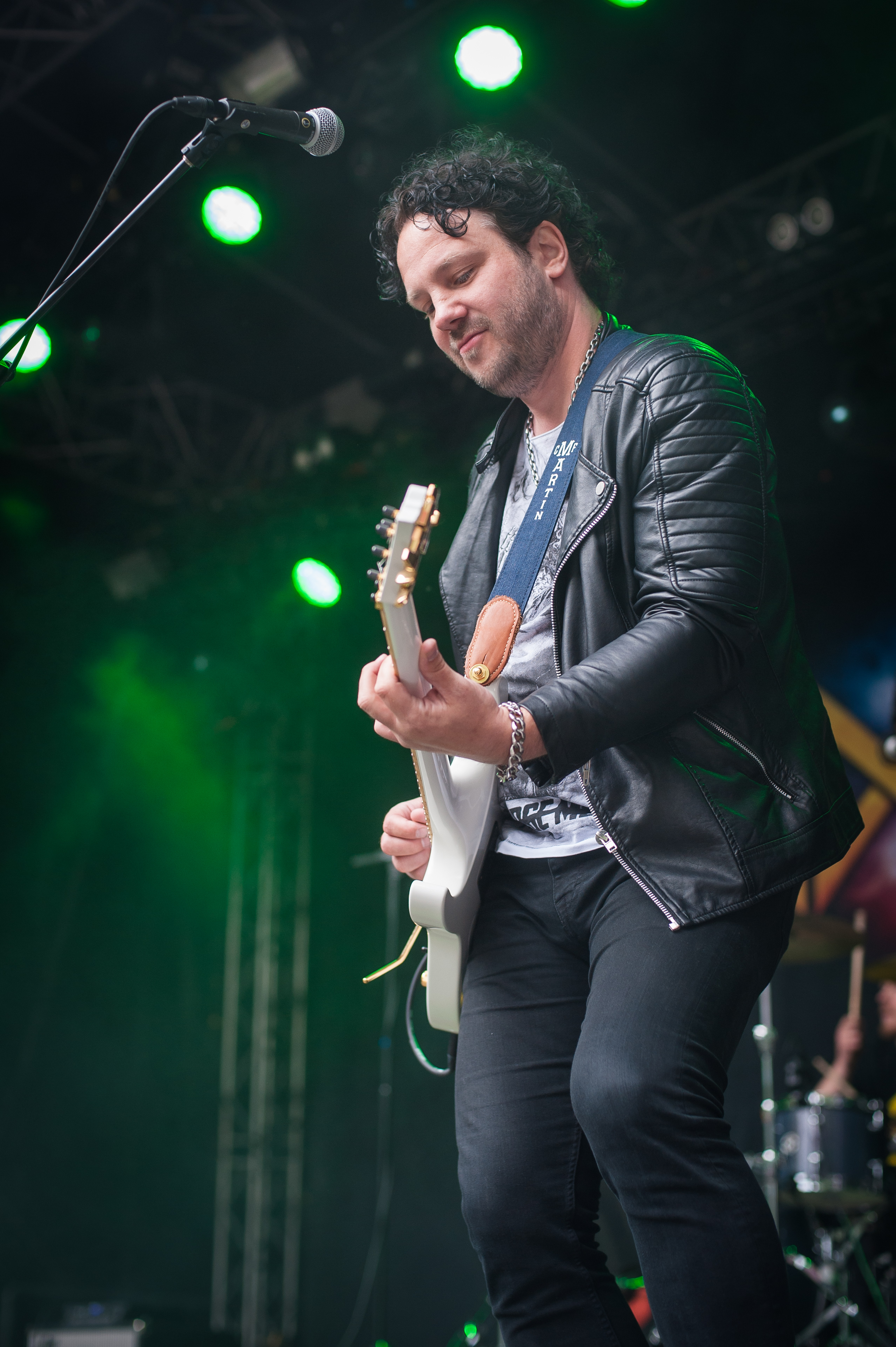 Finnish heavy metal band One Desire performing at the 2018 South Park festival in Tampere, Finland.